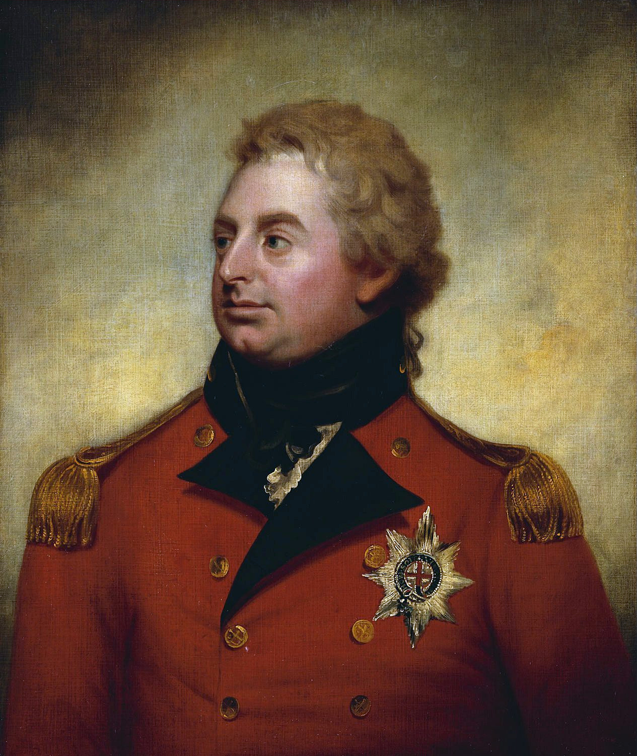 Portrait of Frederick, Duke of York (1763-1827)